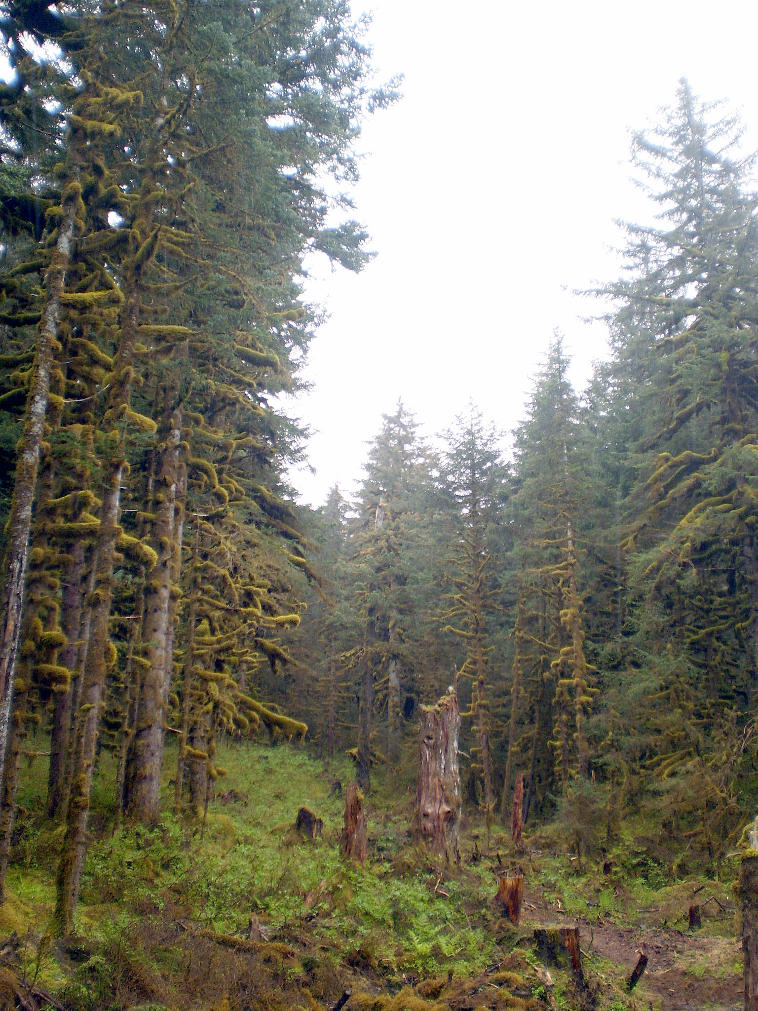 Kodiak Picea sitchensis rainforest